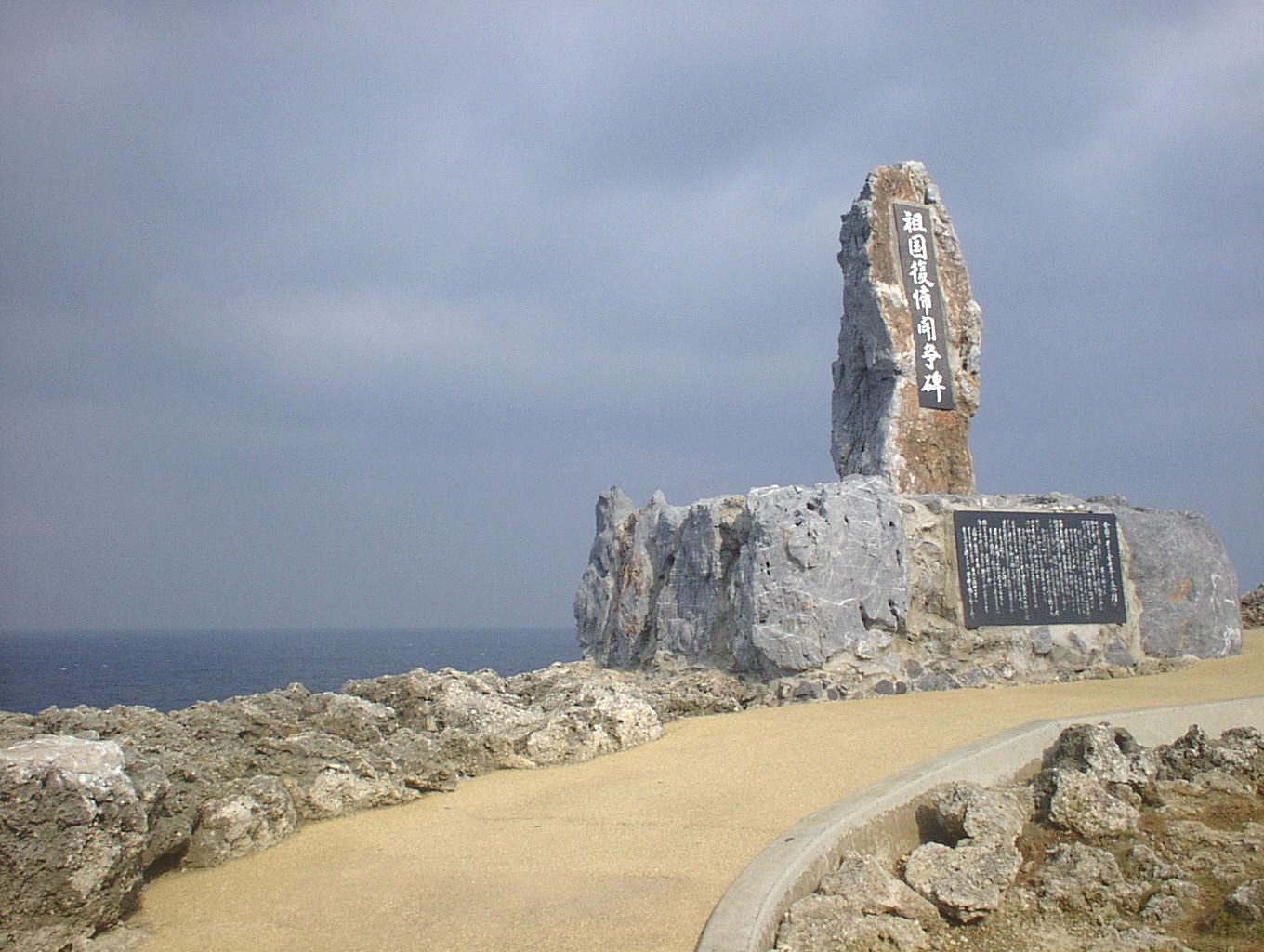 The monument located at Cape Hedo (辺戸岬), Kunigami , Okinawa, Japan. It celebrates the movement which aimed the reversion of Okinawa from US to Japan. Taken by user:Sketch.